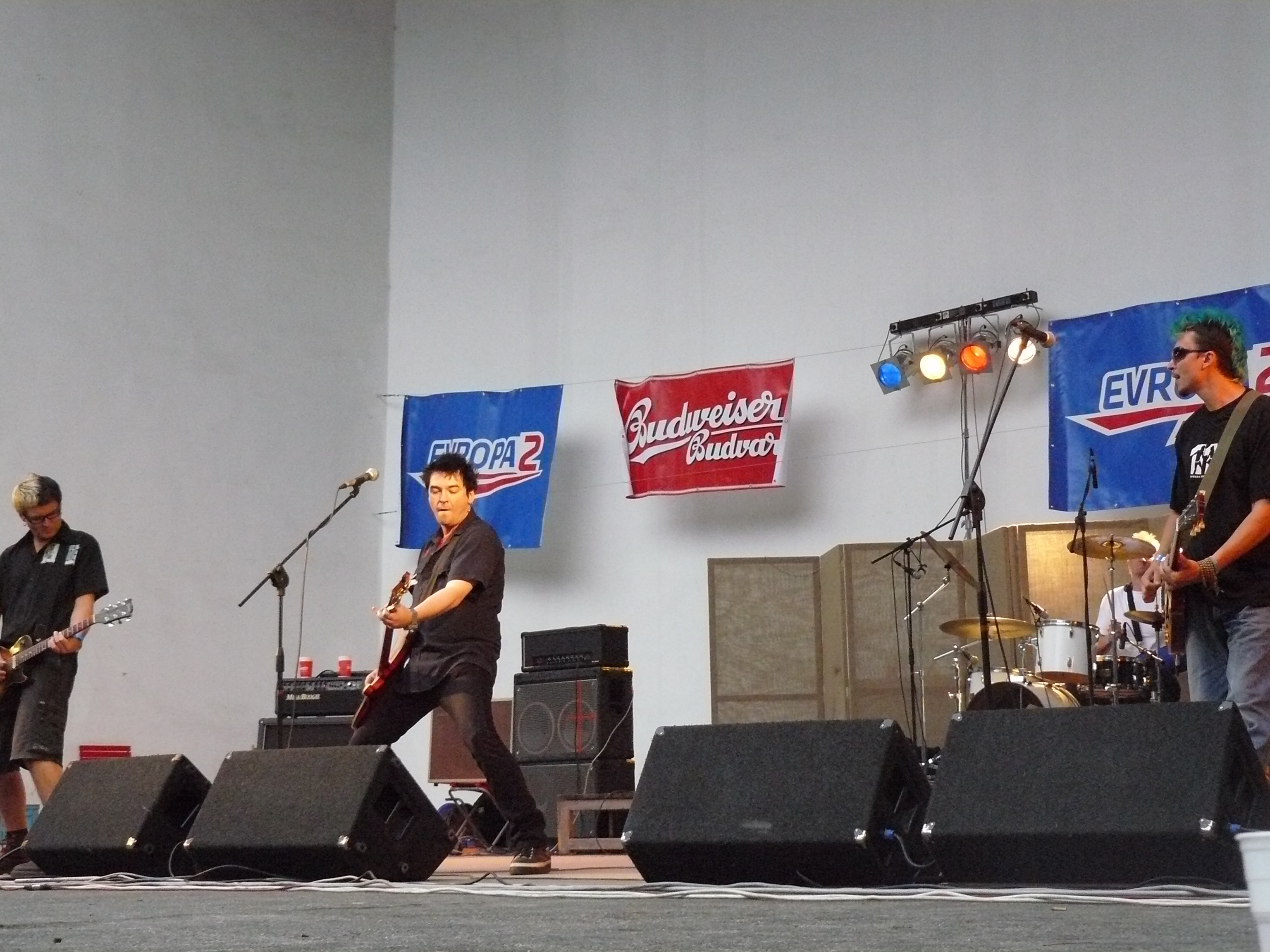 Czech punk band Plexis